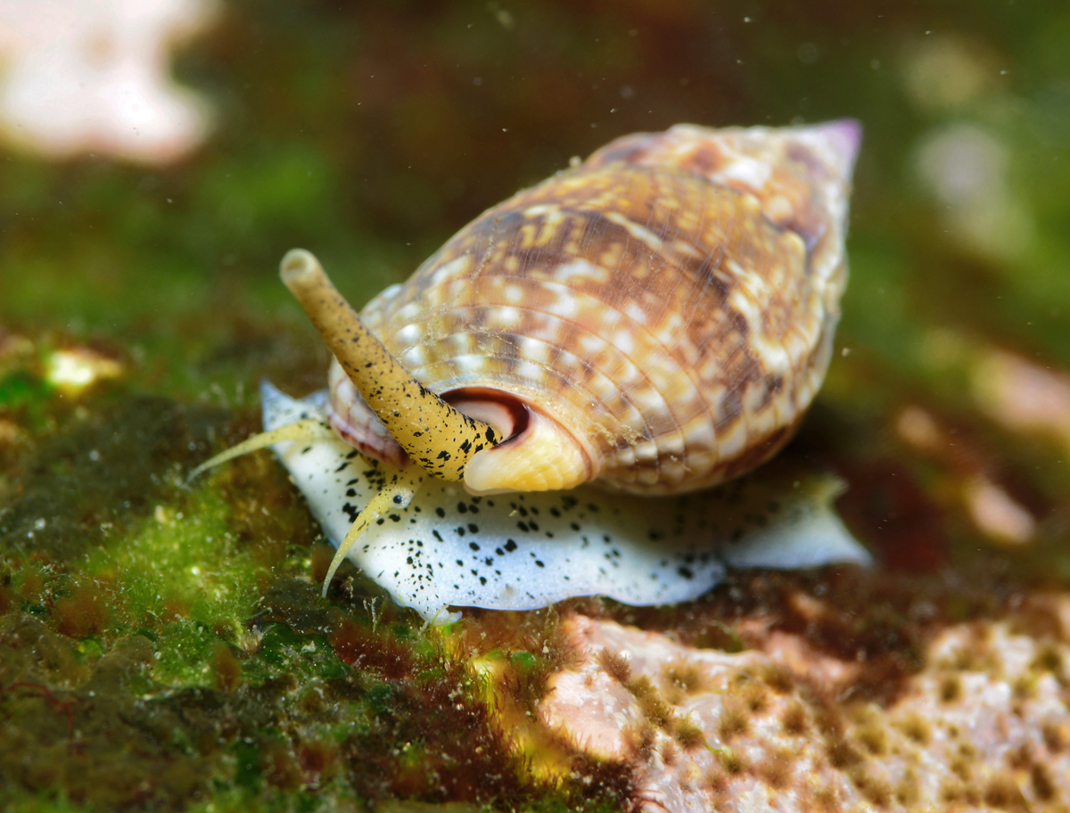 Nassarius gaudiosus in Réunion island.